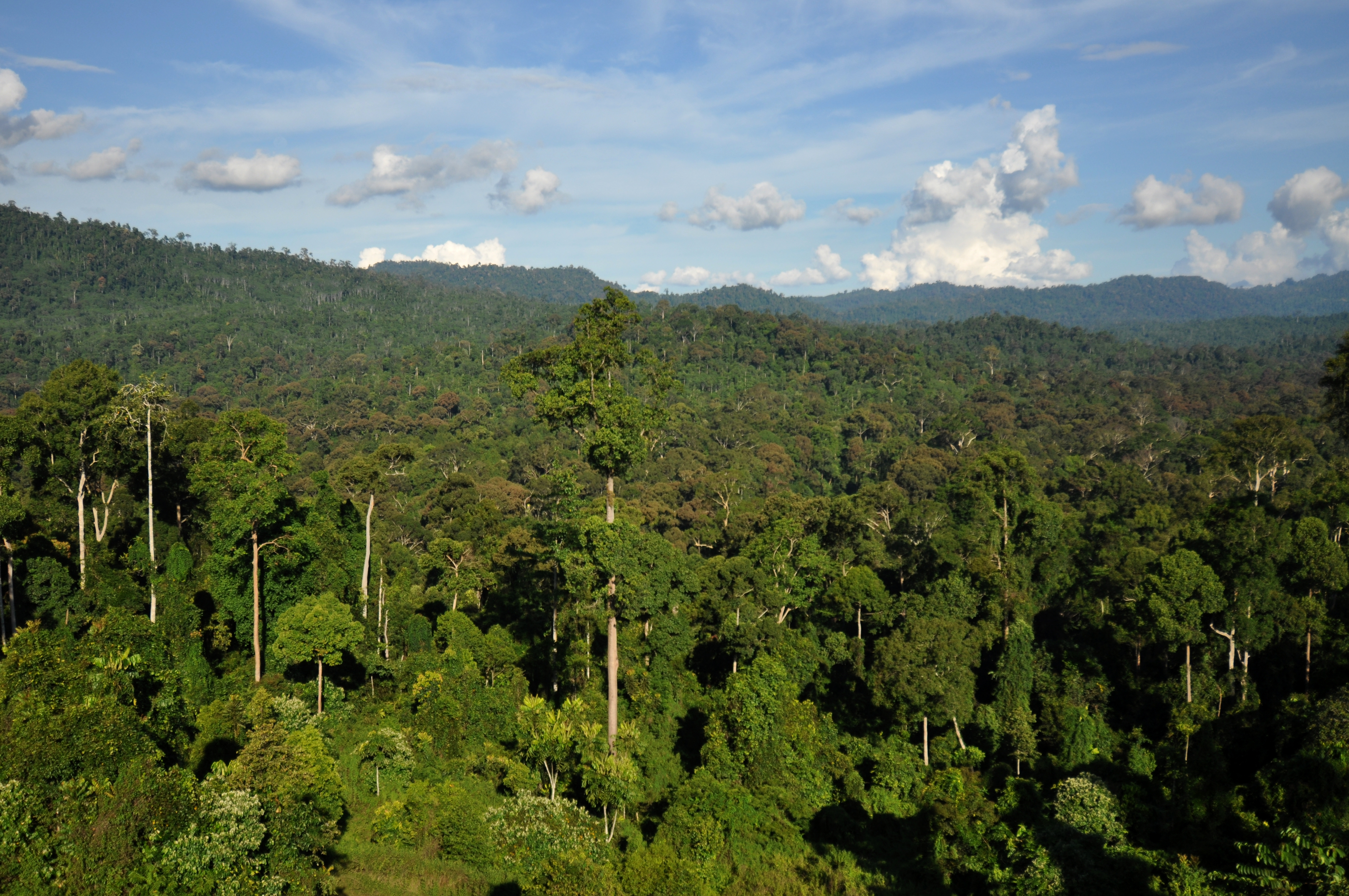 Mature tropical dipterocarp rainforest in Sabah, Borneo